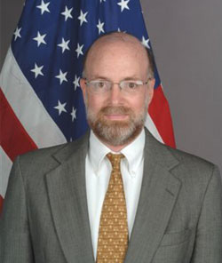 Ronald McMullen, U.S. diplomat. Until 2010, U.S. Ambassador to Eritrea.